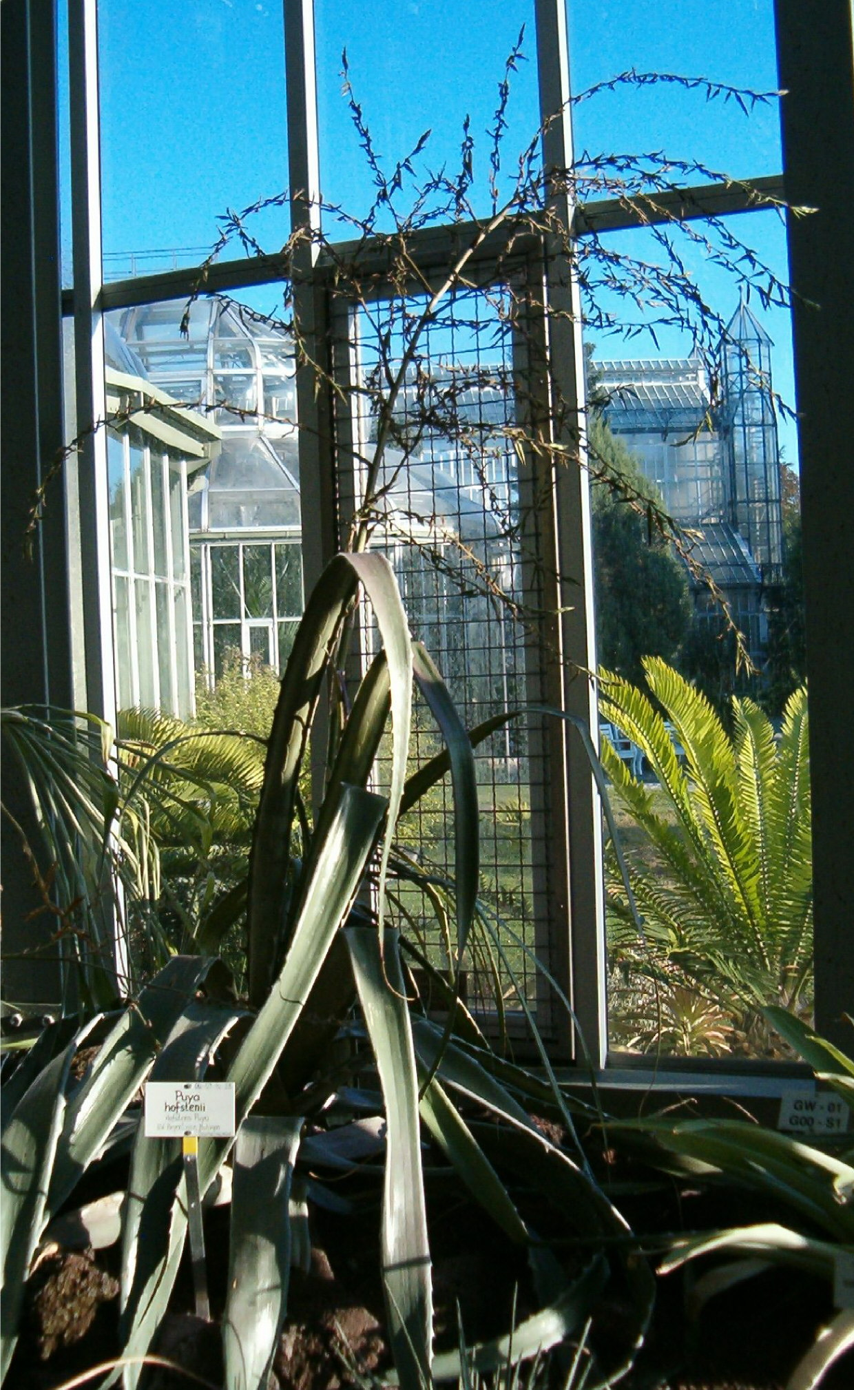 Location: Botanical Gardens Berlin Habitus and Inflorescence